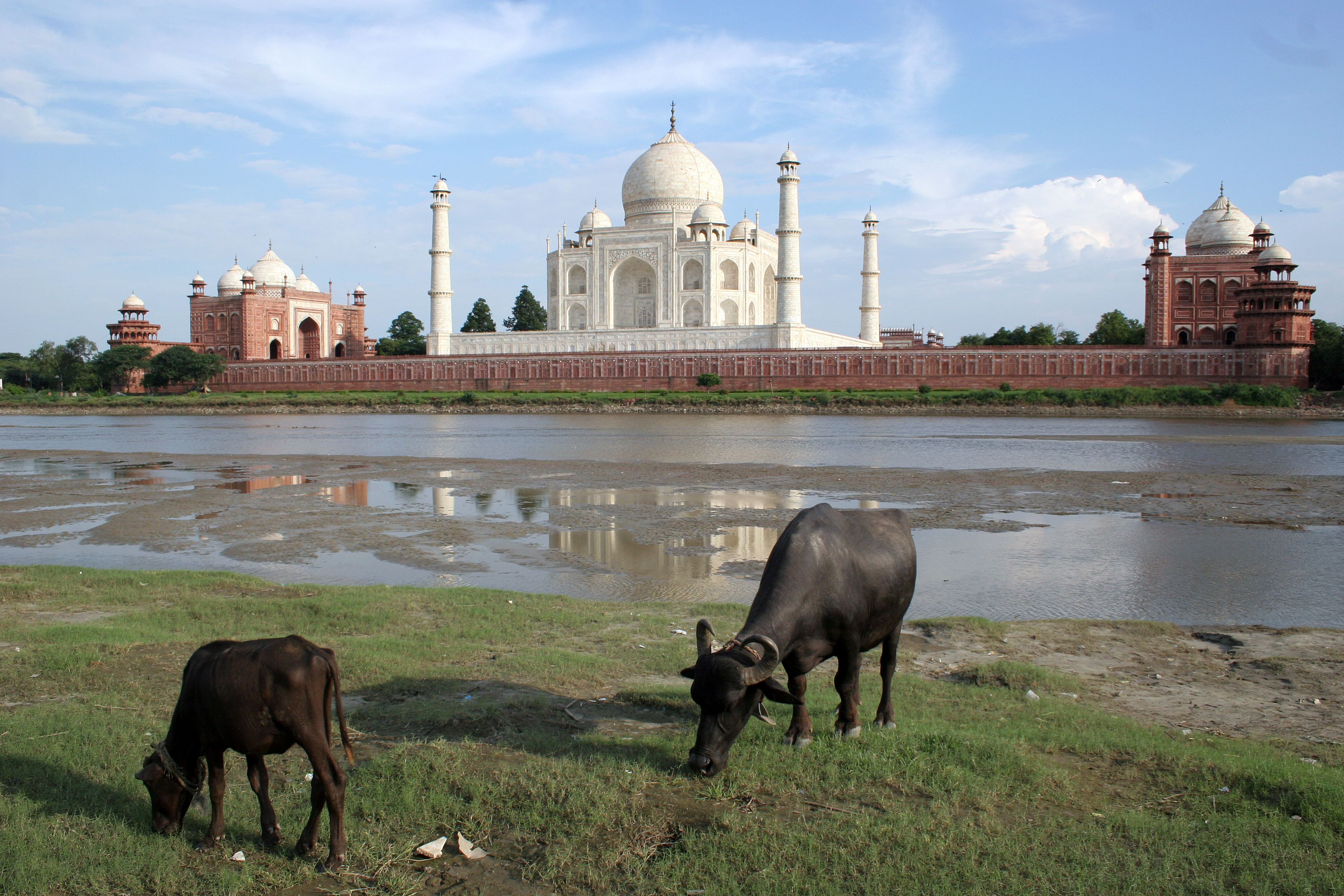 Taj Mahal world heritage site in Agra, India.